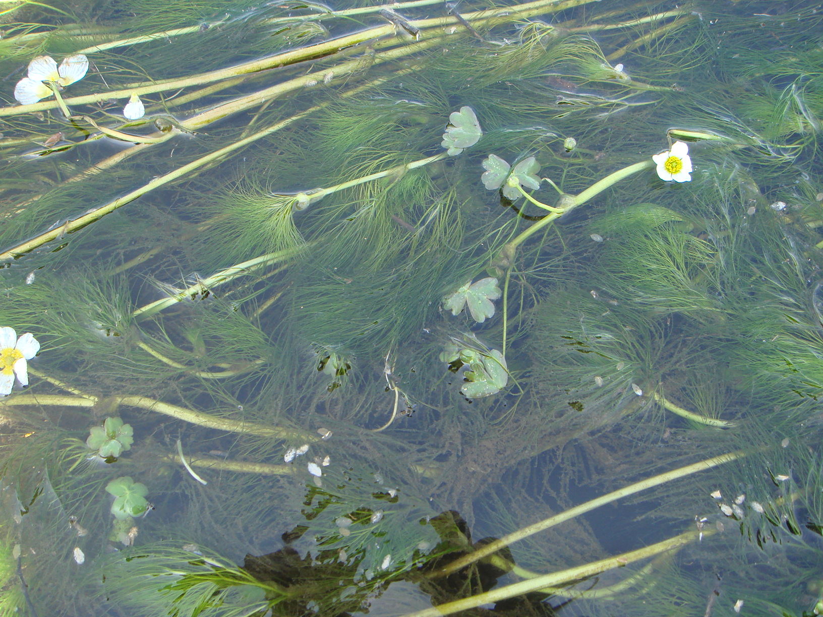 Ranunculus peltatus La Torre (Ávila) Spain